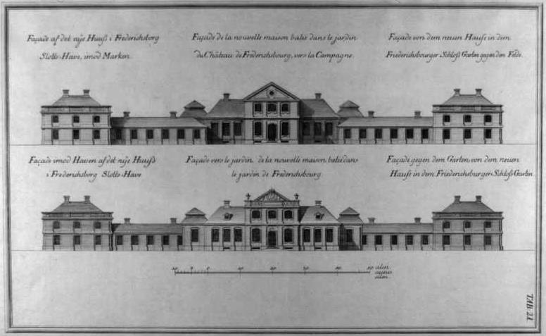 The Chinese Pavilion at Frederiksborg Castle, built 1745 by Nicolai Eigtved, demolished 1769.